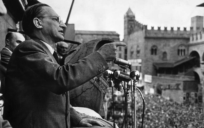 Alcide De Gasperi in Bologna